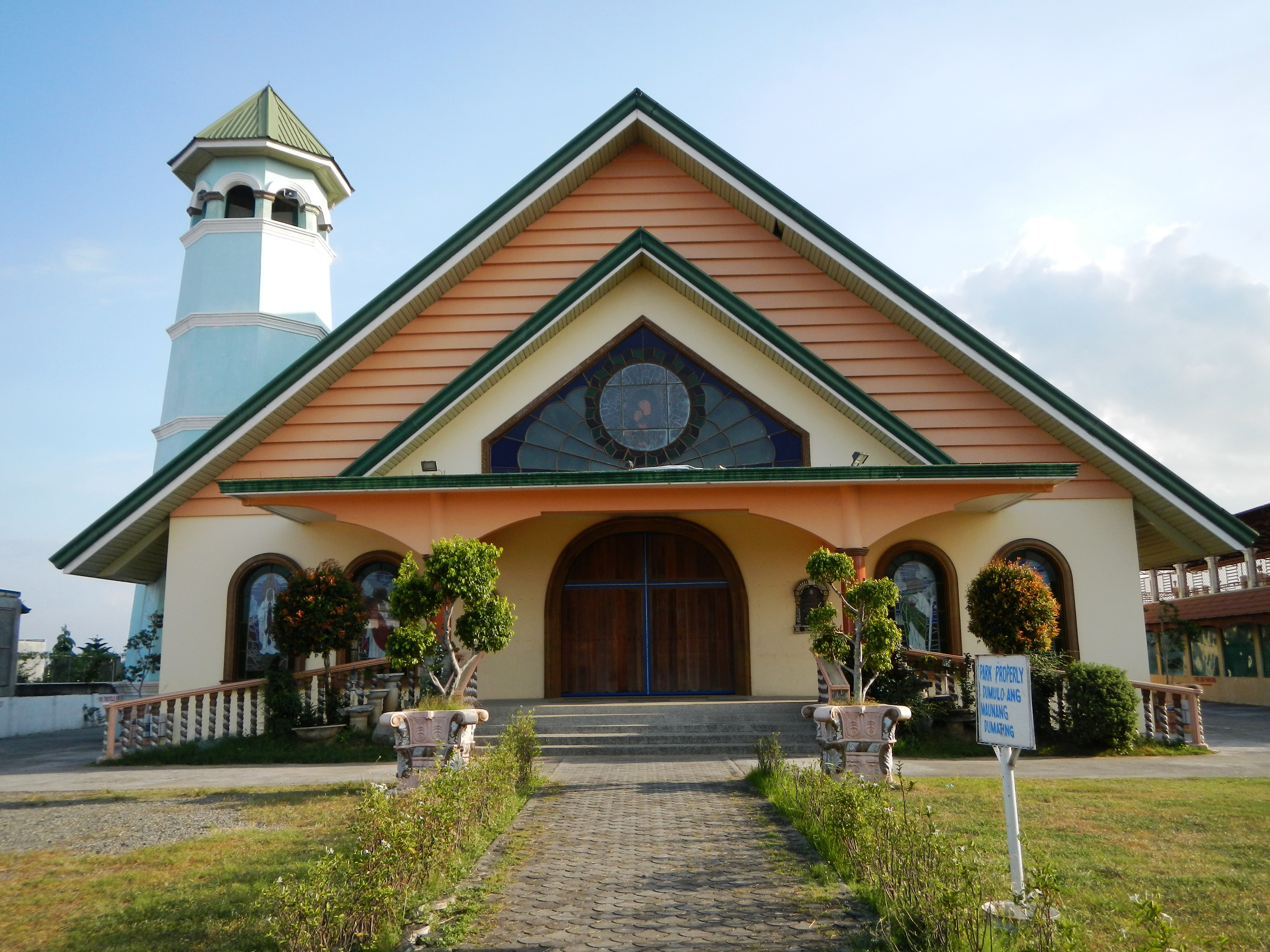 Barangay San Pedro, Hagonoy, Bulacan - High School in front of the Barangay Hall and gateway to its Chapel of Saint Peter and Engr. Manuel R. Contreras Memorial Production Center, Paombong Water District Pumping Station beside the Our Mother of Perpetual Help Parish Church.